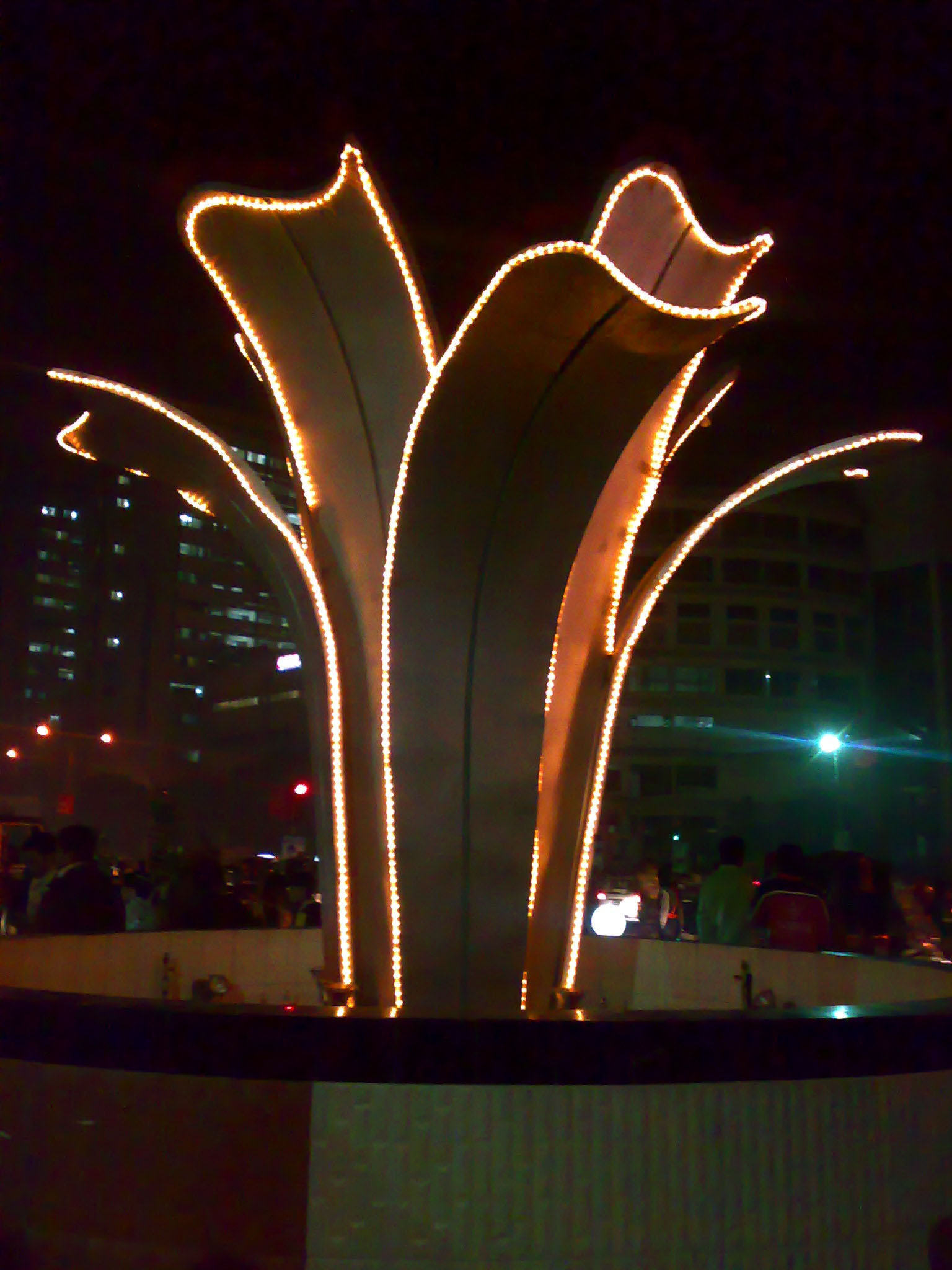 Shahbagh Chattar night view Dhaka on 16th December, 2011